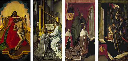 "The Trinity Altarpiece" 2. picture: Sir Edward Bonkil wears a long squirrel fur stole. 4. picture: Royal ermine-trimmed robe, showing Margaret of Denmark, Queen of Scotland. Oil on panel; Each panel: 202.00 x 100.50 cm National Galleries of Scotland